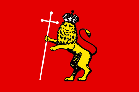 Vladimir, flag